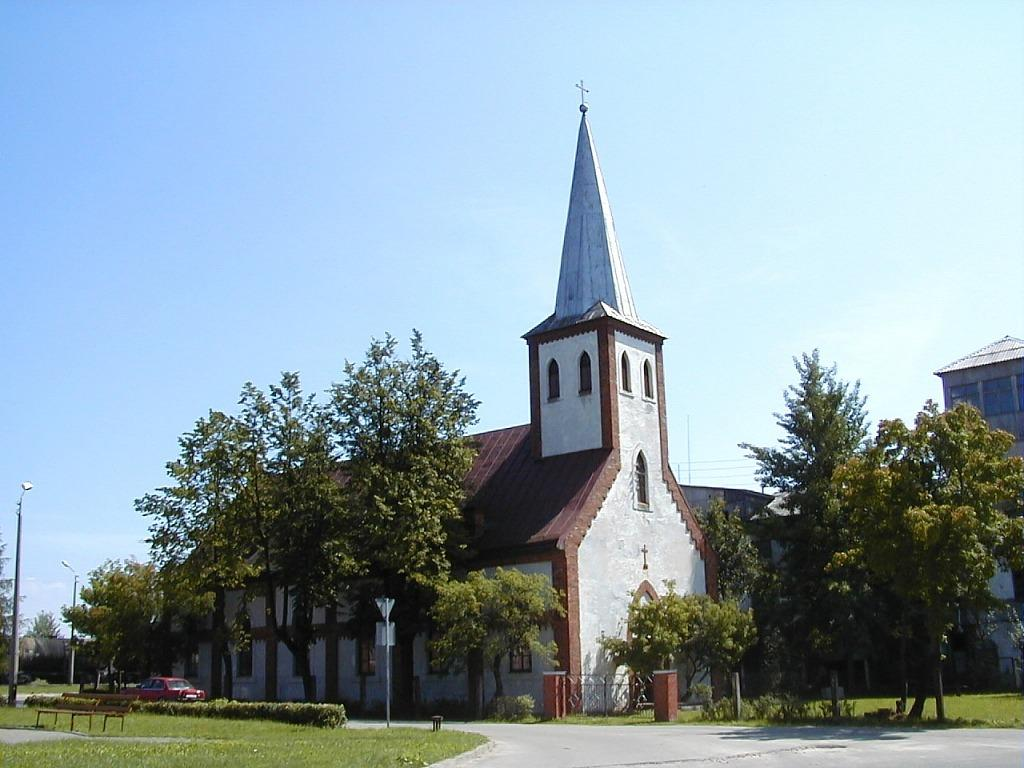 Lutheran Church in Livany city, Latvia.